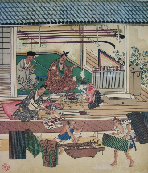 矢師。『職人尽図屏風』（喜多院蔵）より。狩野吉信筆。桃山文化。Arrow maker "Ya-shi". From "Shokunin Zukusi-zu Byoubu" (Kita shrine collection).